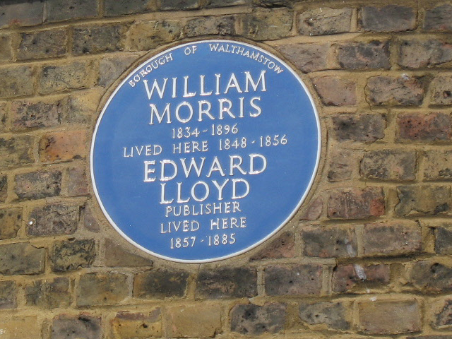 Plaque to William Morris and Edward Lloyd. See 1214653 for the building on which this is situated. Lloyd's name is commemorated by the name of the park behind the house.